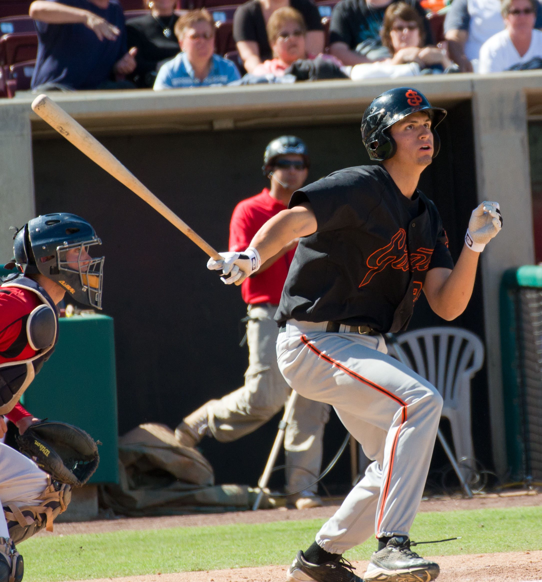 San Jose Giants Outfielder Jarrett Parker on April 10, 2011.